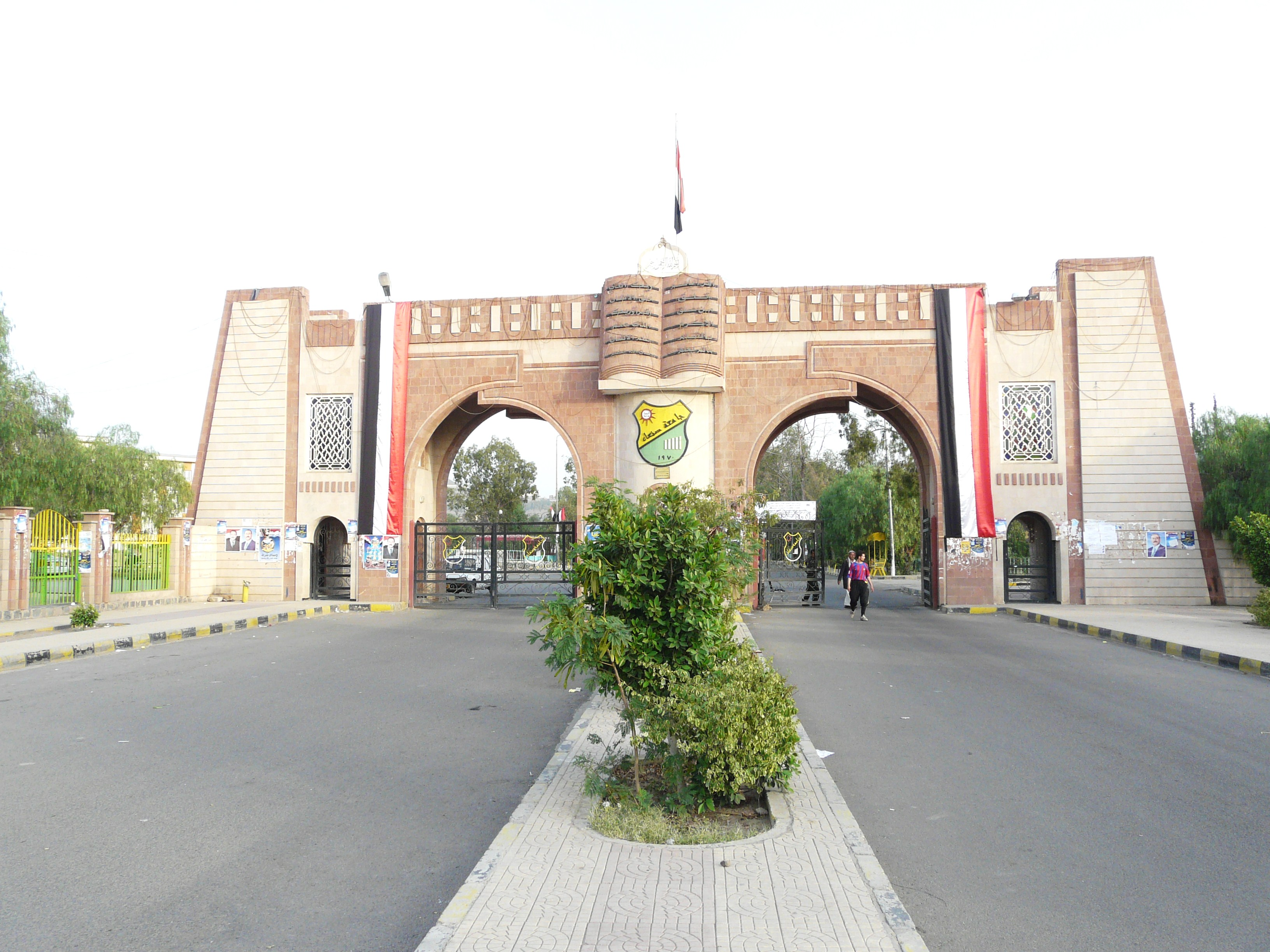 Front gate of Sana'a New University.